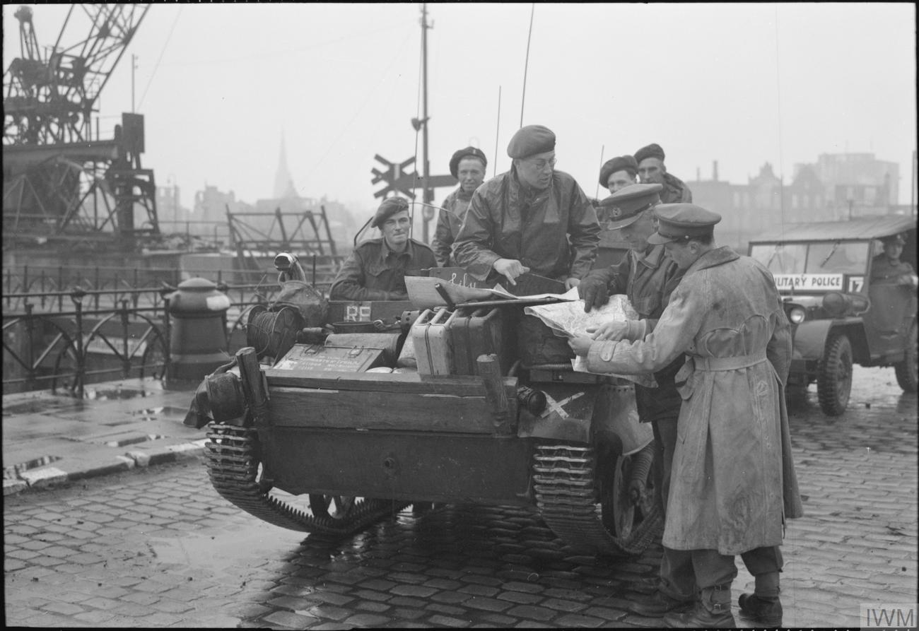 The British Army in North-west Europe 1944-45 Lt-Gen Brian Horrocks, GOC 30 Corps (standing, second from right), studies maps with officers in a Universal carrier at the Europa Docks in Bremen, 27 April 1945.